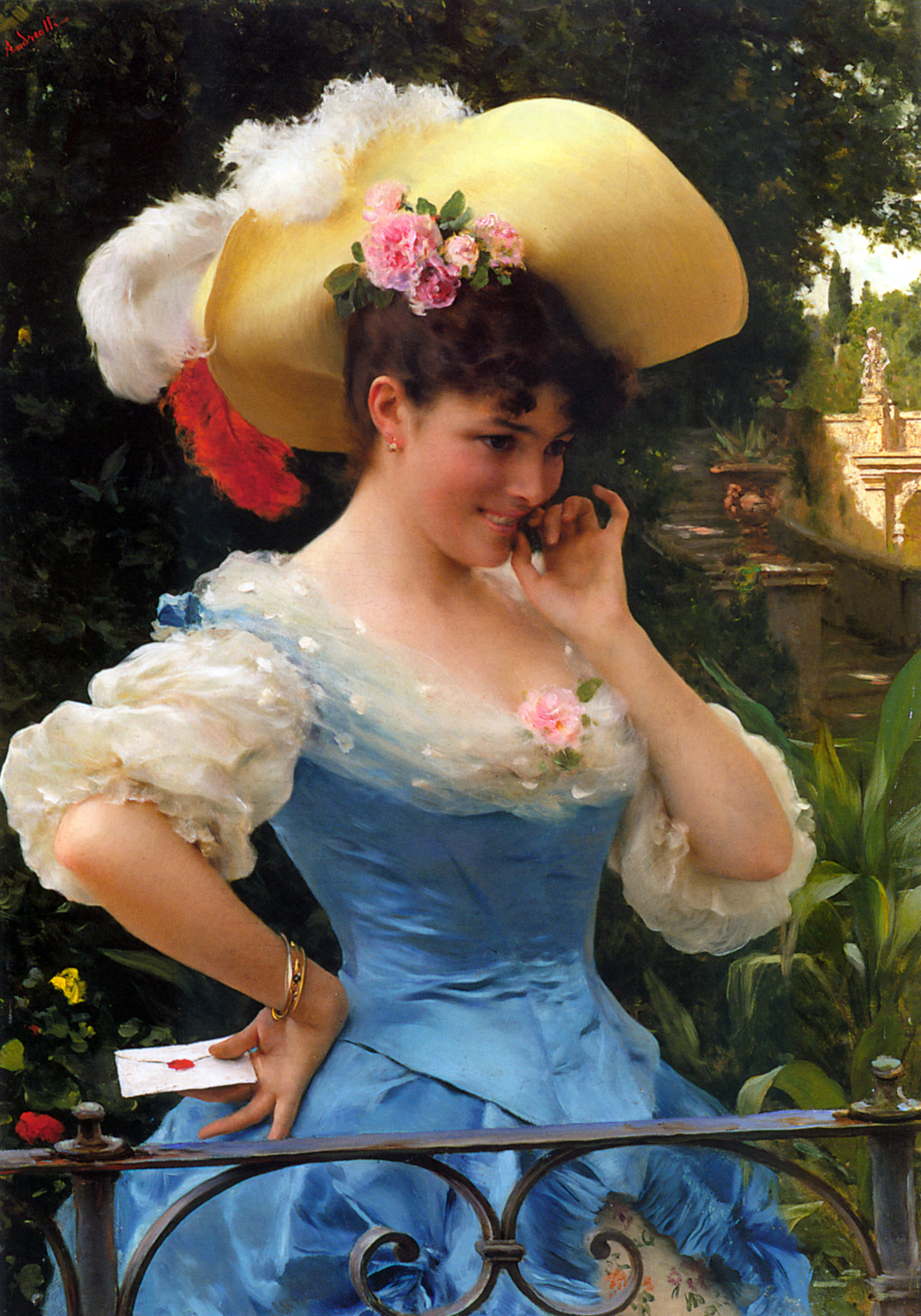 The Love Letter